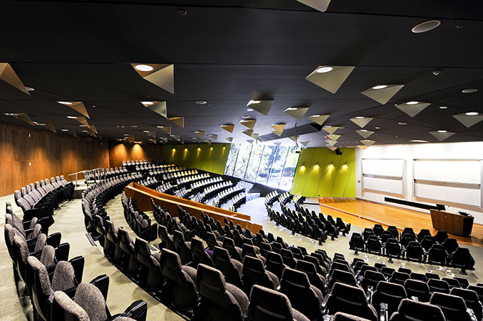 UNSW Law Theatre